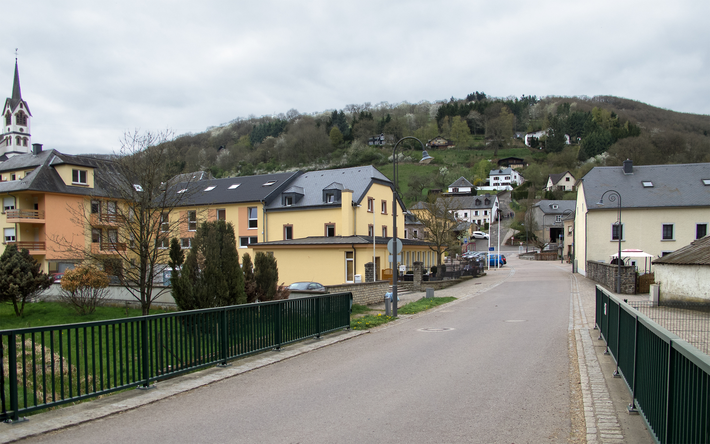 Vue on Welscheid, Luxembourg, from the south